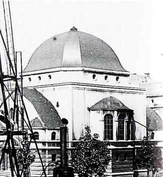 Synagogue of Wilhelmshaven, built in 1915, destroyed in 1938 during Kristalnacht